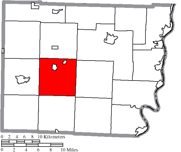 Map of the municipal and township boundaries of Belmont County, Ohio, United States, as of the 2000 census, with the location of Goshen Township highlighted. Township borders are shown only in unincorporated areas in order to differentiate incorporated and unincorporated areas more clearly.